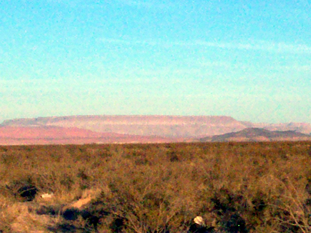 The red cliffs of the Colorado Plateau rising above the Mojave Desert in southwest Utah. Photo taken by David Jolley 2007.